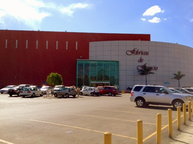 El edificio del Fabricas de Francia en Oaxaca de Juarez, Oaxaca, Mexico. Marzo 2012.